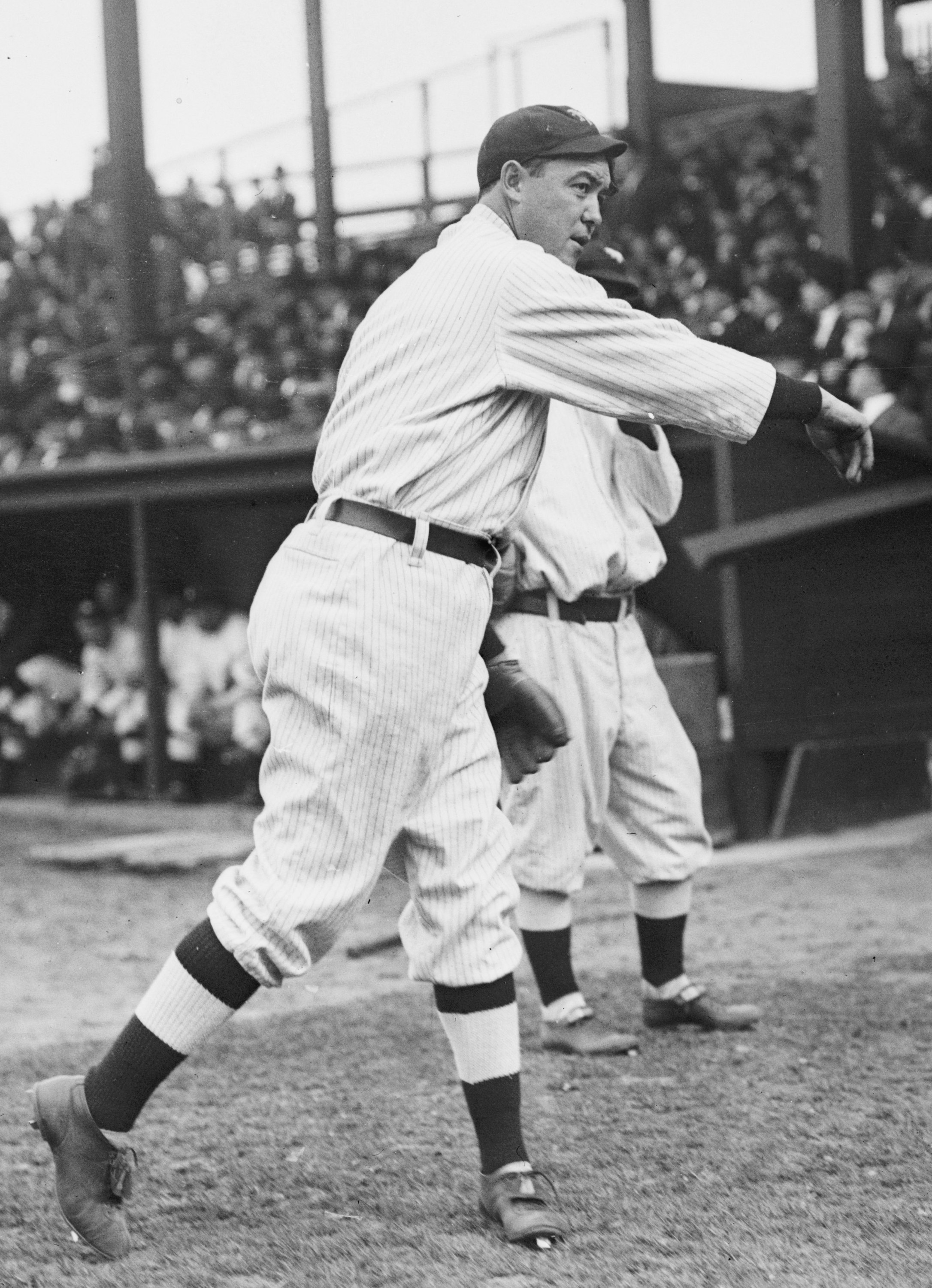 "Bugs Raymond, New York, NL (baseball)" A 1911 image, from the Bain News Service, of Bugs Raymond, a baseball player.